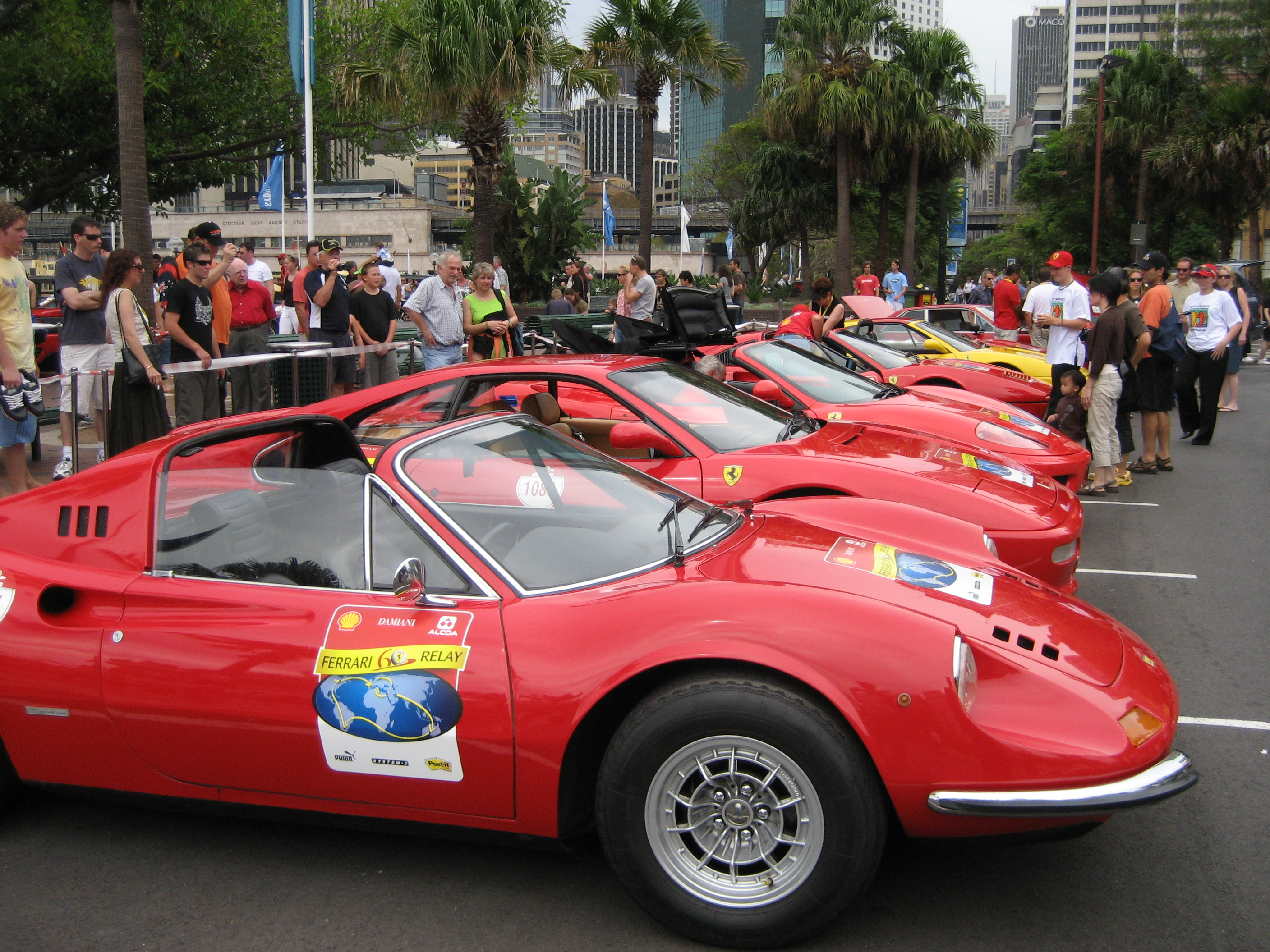 Cavalcade of Ferraris at the Liner Terminal celebrating 50 years of Ferraris in Australia (2007)